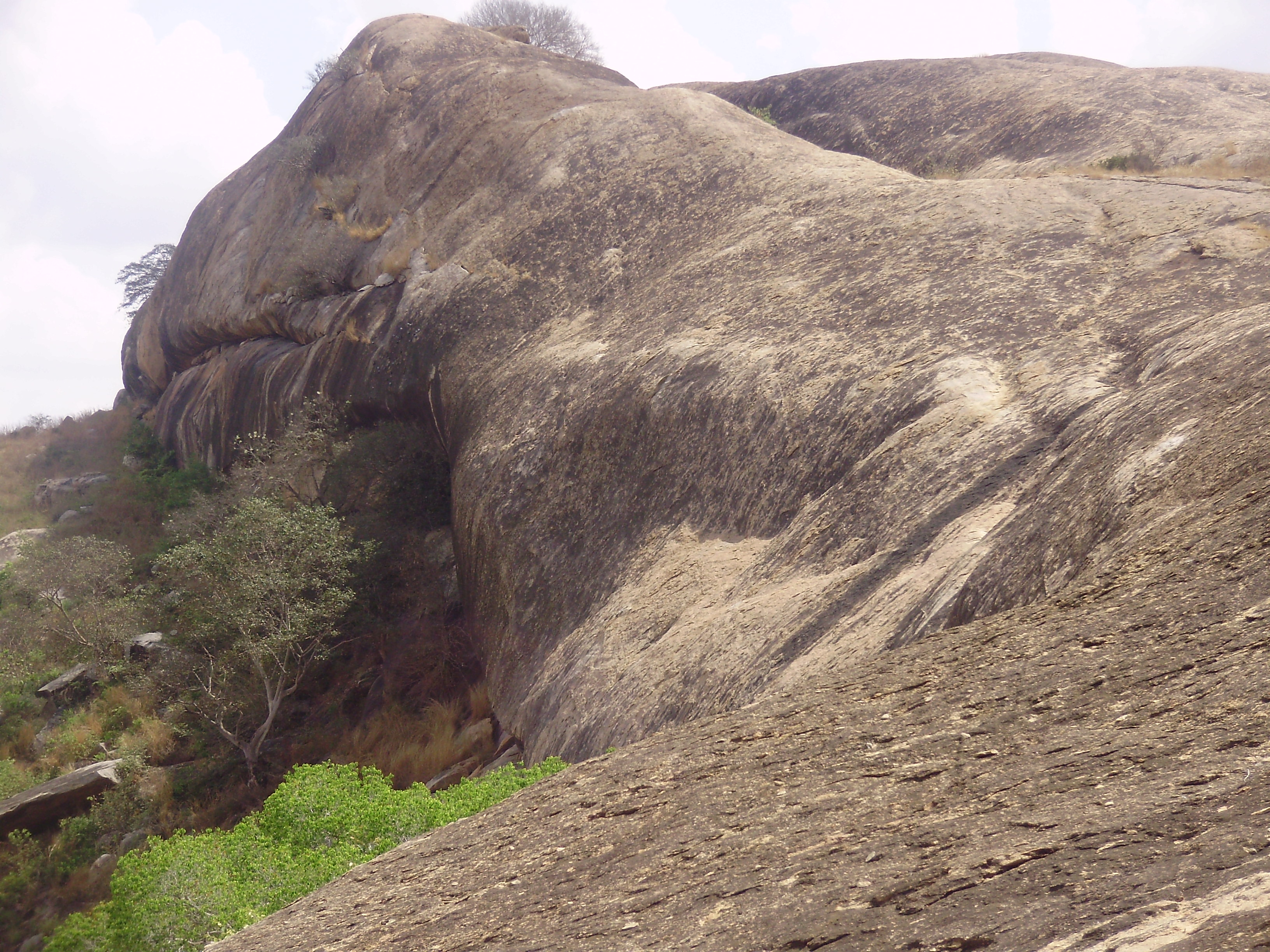 சித்தன்னவாசல் எனப்படும் சிற்றூர் புதுக்கோட்டை அருகில் உள்ளது